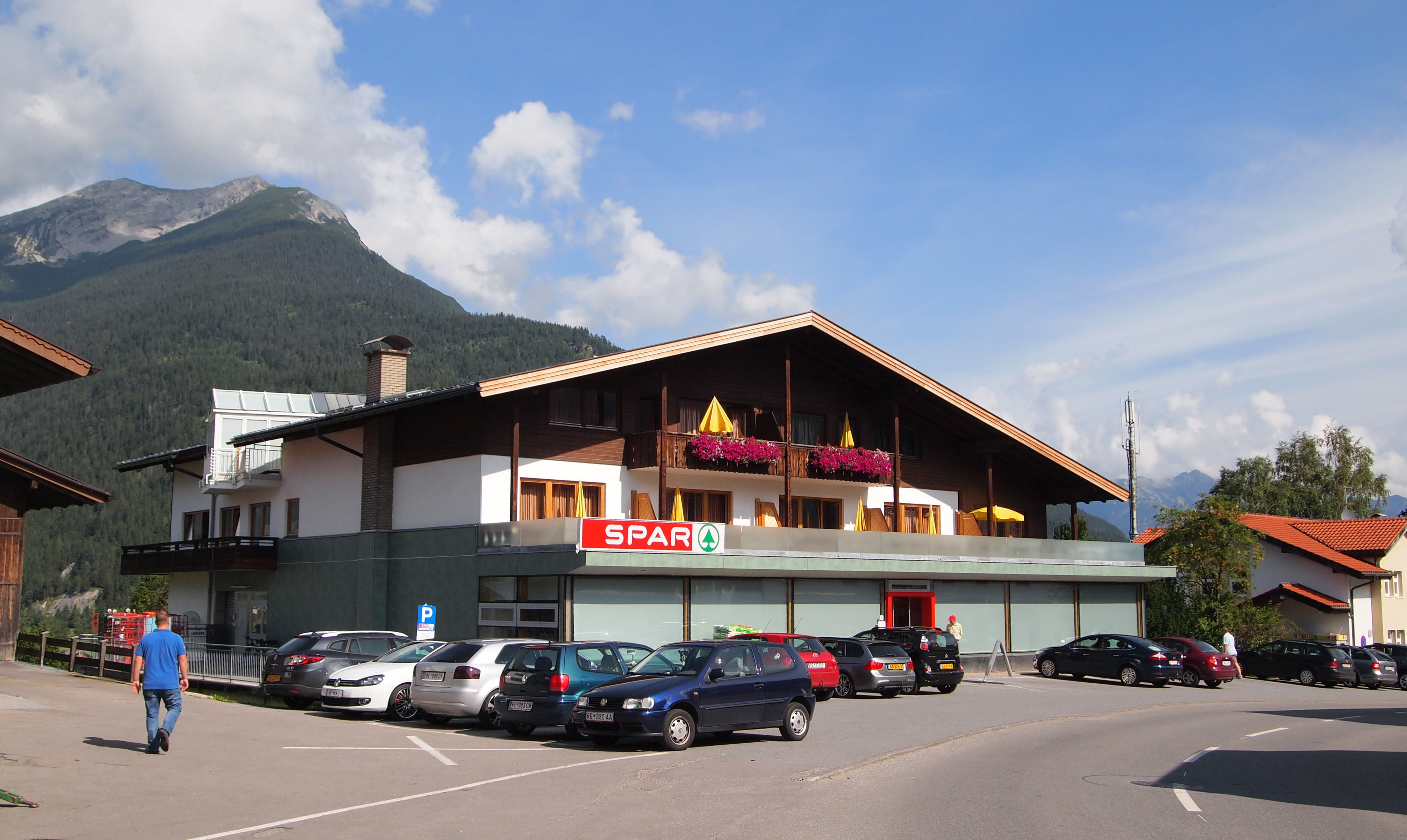 SPAR in Ehrwald. This photograph was taken with a Olympus E-PL1.